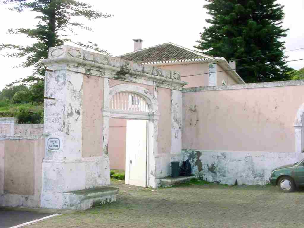 Solar dos Meireles, entrada do páteo, Portões de São Pedro, Angra do Heroísmo, ilha Terceira, Açores, Portugal